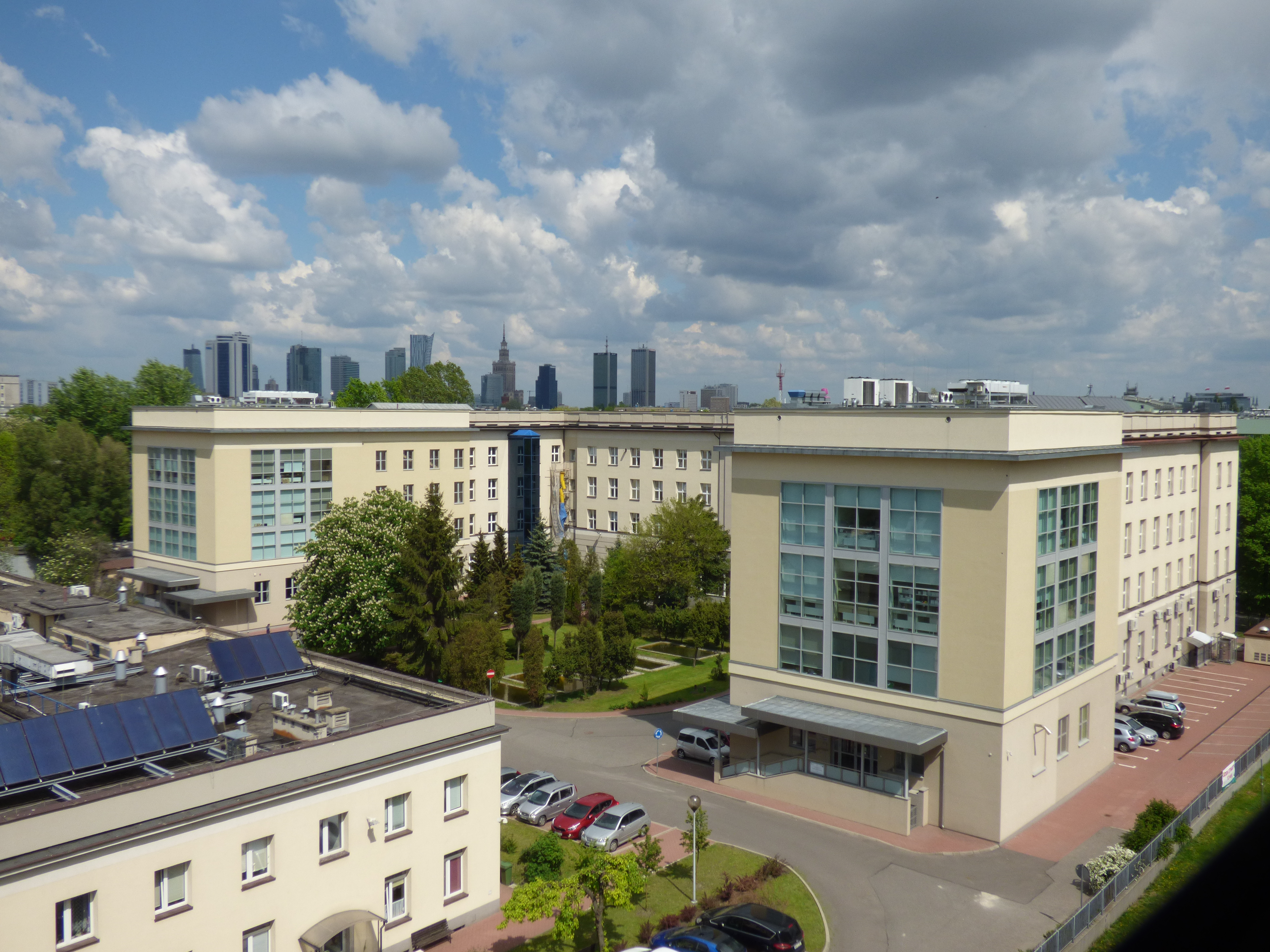 Nencki Institute of Experimental Biology